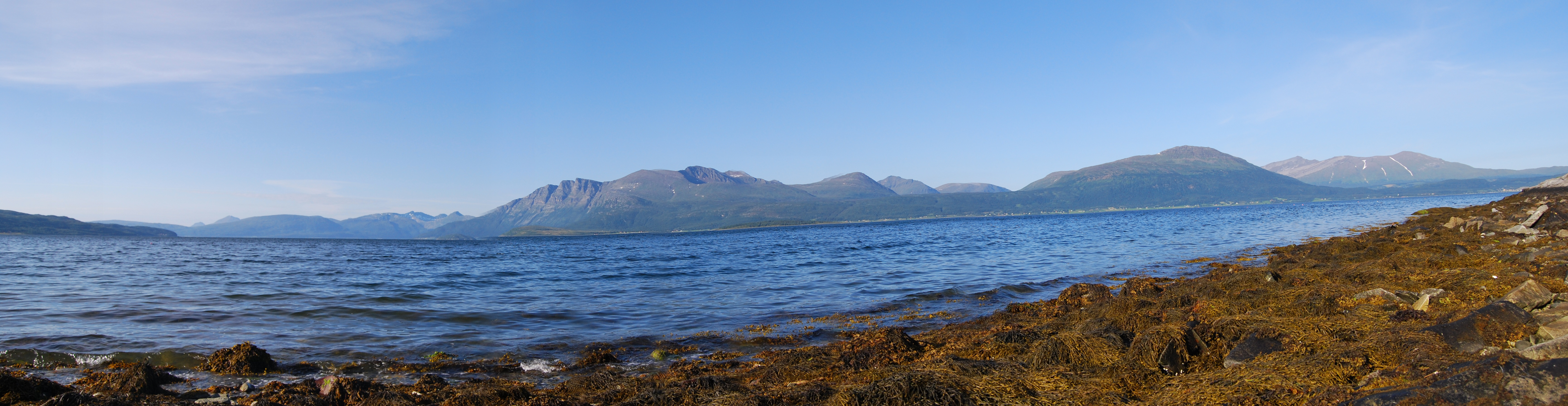 Malangen fjord and Klemmartindan hill in the back, Norway.